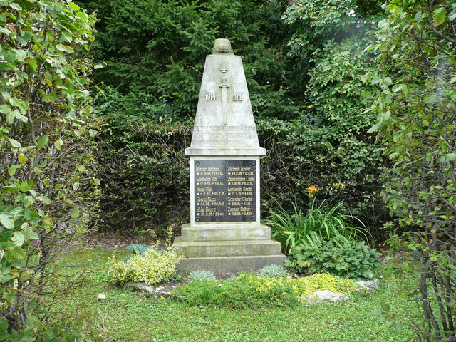 This image shows the World War I memorial in Hirschberg near Olbernhau.